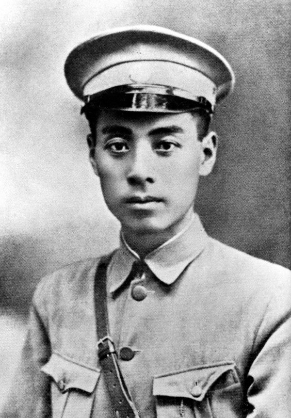 Zhou Enlai, Premier of China